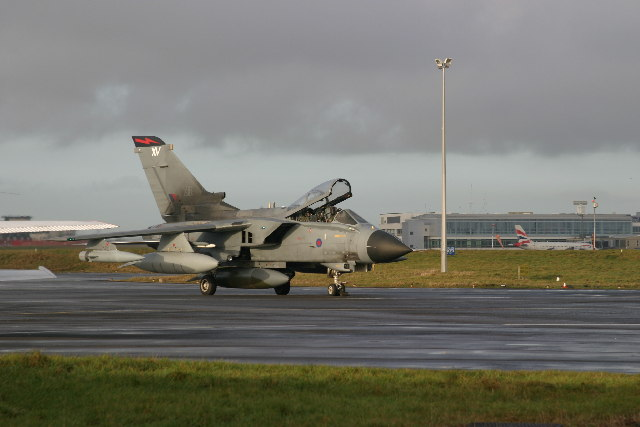 Maintenance area at Newcastle Airport. The "new" Newcastle International Airport buildings can be seen in the background (NZ1871). What is the military aircraft featured in the photograph?